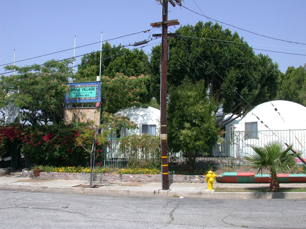 Dome Village was a community in downtown Los Angeles from 1993 to 2006.